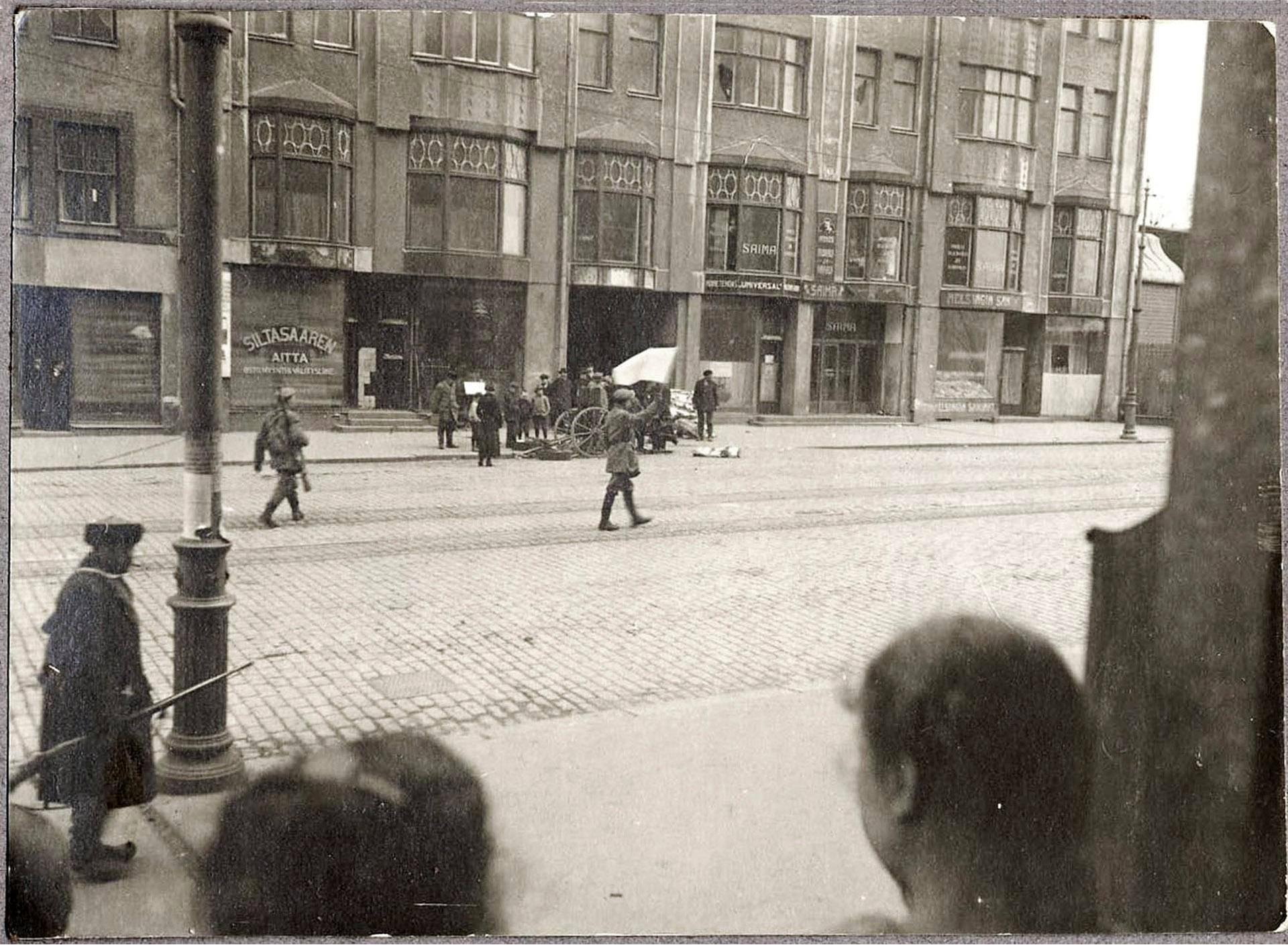 1918 Finnish Civil War: Red Guard fighter with a white flag in the working class district of Siltasaari after the Battle of Helsinki.